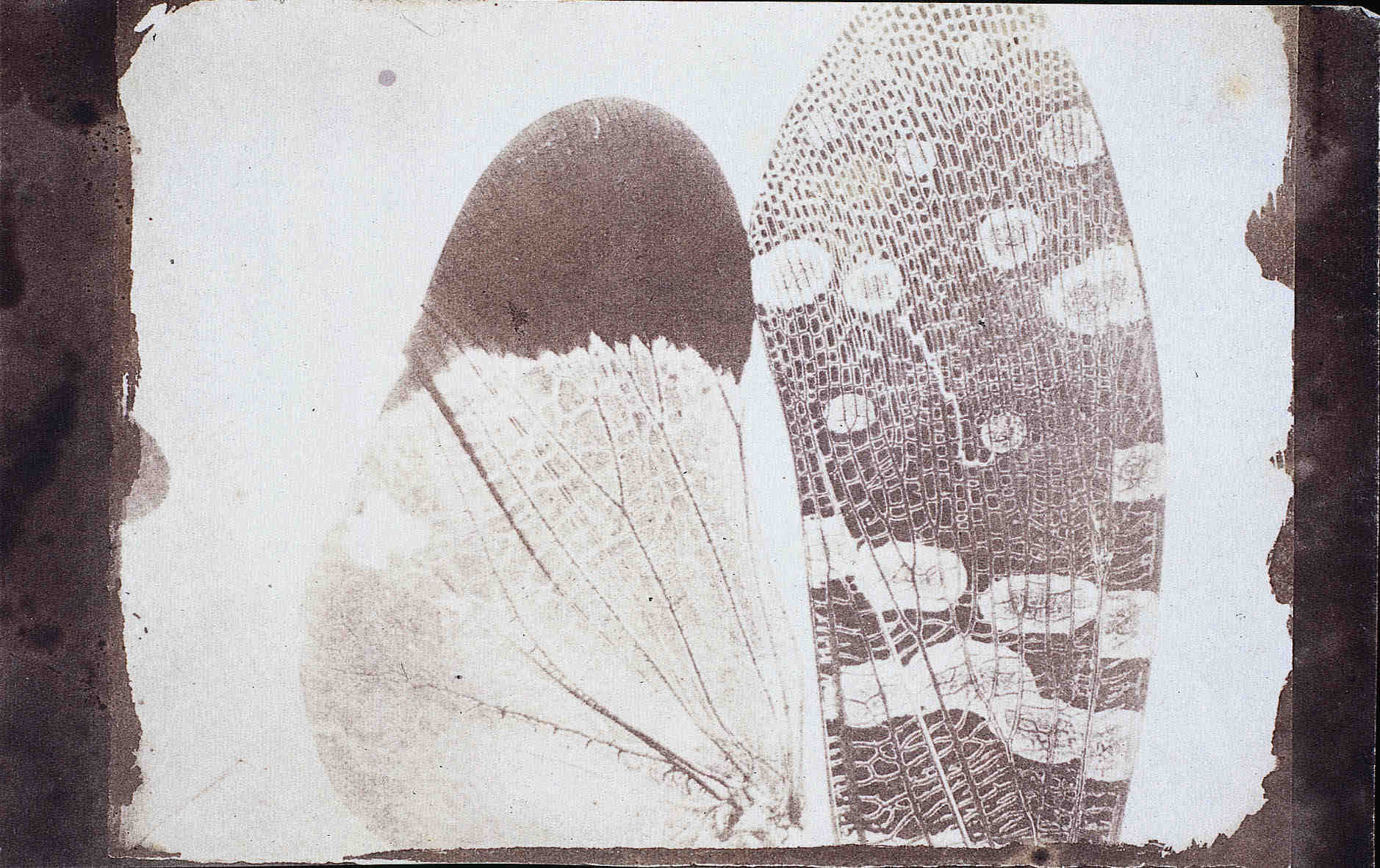 William Henry Fox Talbot (1800-1877) Collection of National Media Museum Photomicrograph of insect wings, as seen in a solar microscope. (Maybe Fulgora candelaria wings) We're happy for you to share this digital image within the spirit of The Commons. Certain restrictions on high quality reproductions of the original physical version of apply though; if you're unsure please visit the National Media Museum website. For obtaining reproductions of selected images please go to the Science and Society Picture Library.